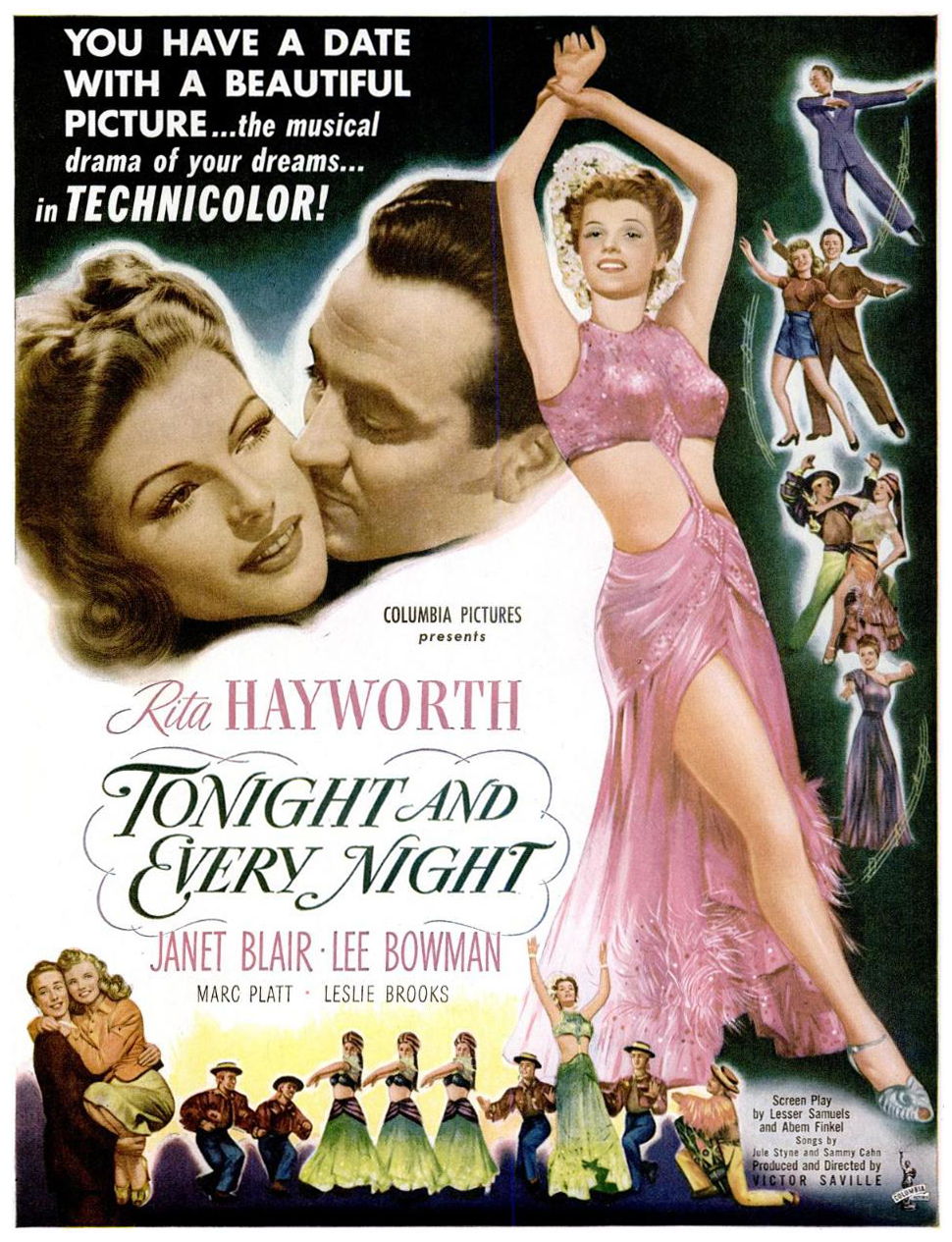 Advertisement for the 1945 film Tonight and Every Night, starring Rita Hayworth